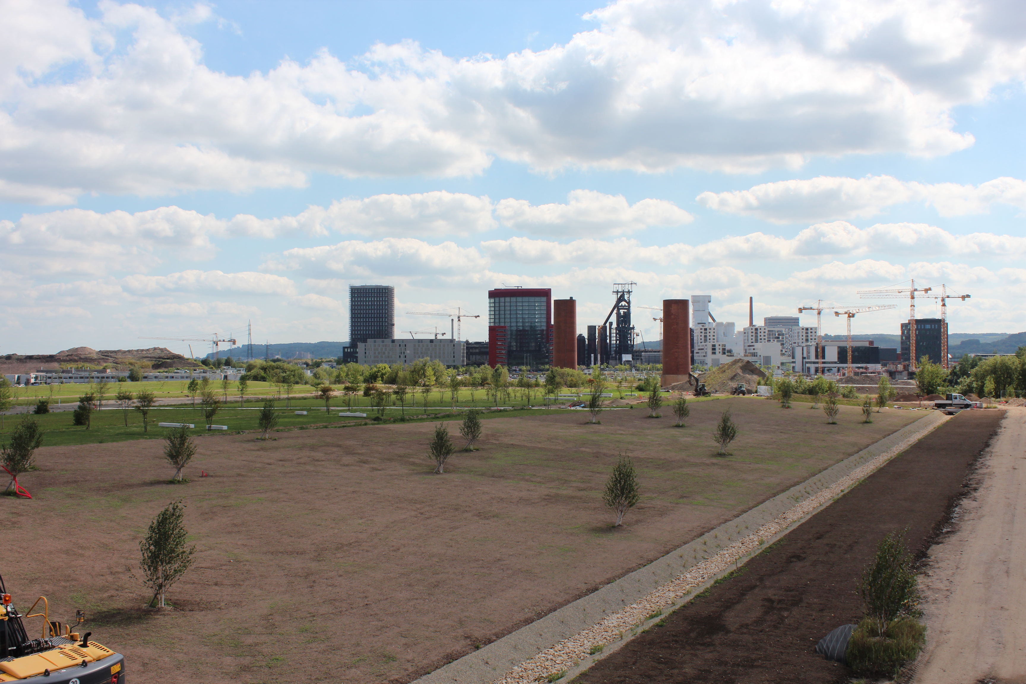 Parc Belval in the making, Summer 2013; Belval, Luxembourg.